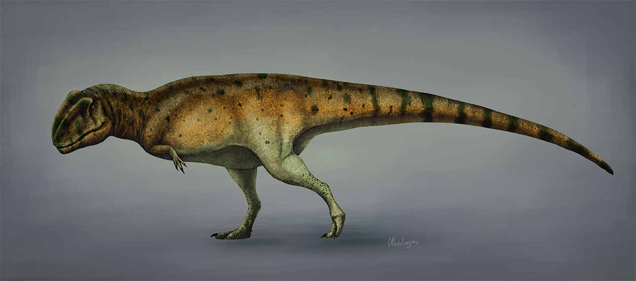 Mapusaurus reconstruction